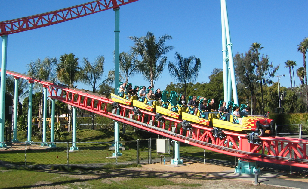 Xcelerator's former Yellow Train (since repainted) cruises to a smooth stop on the magnetic brake run. Photo by Kevin Smith (CC) 2003.